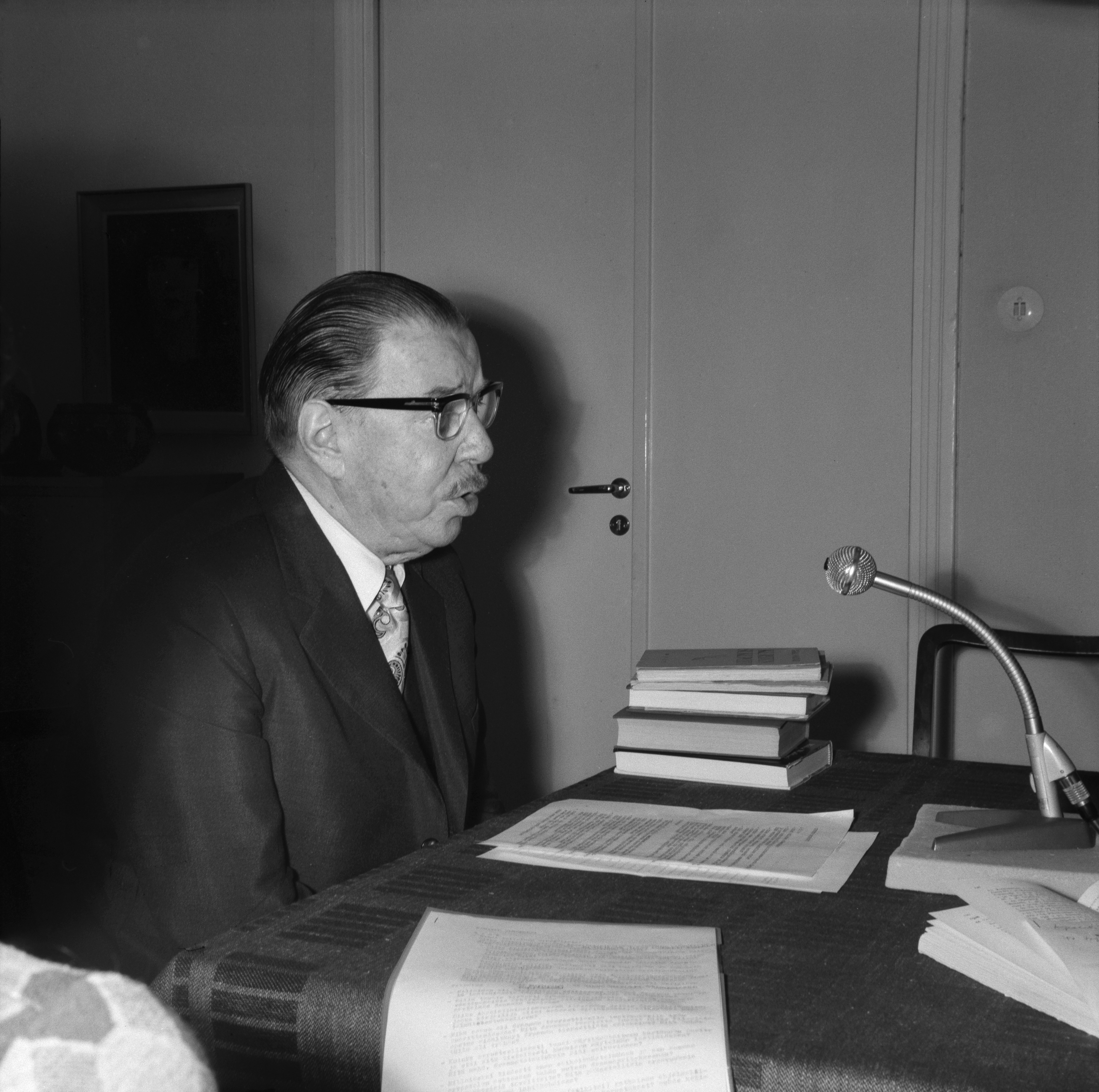 Photograph of the Finnish writer Mika Waltari giving an interview at his home on Tunturikatu street in Helsinki.